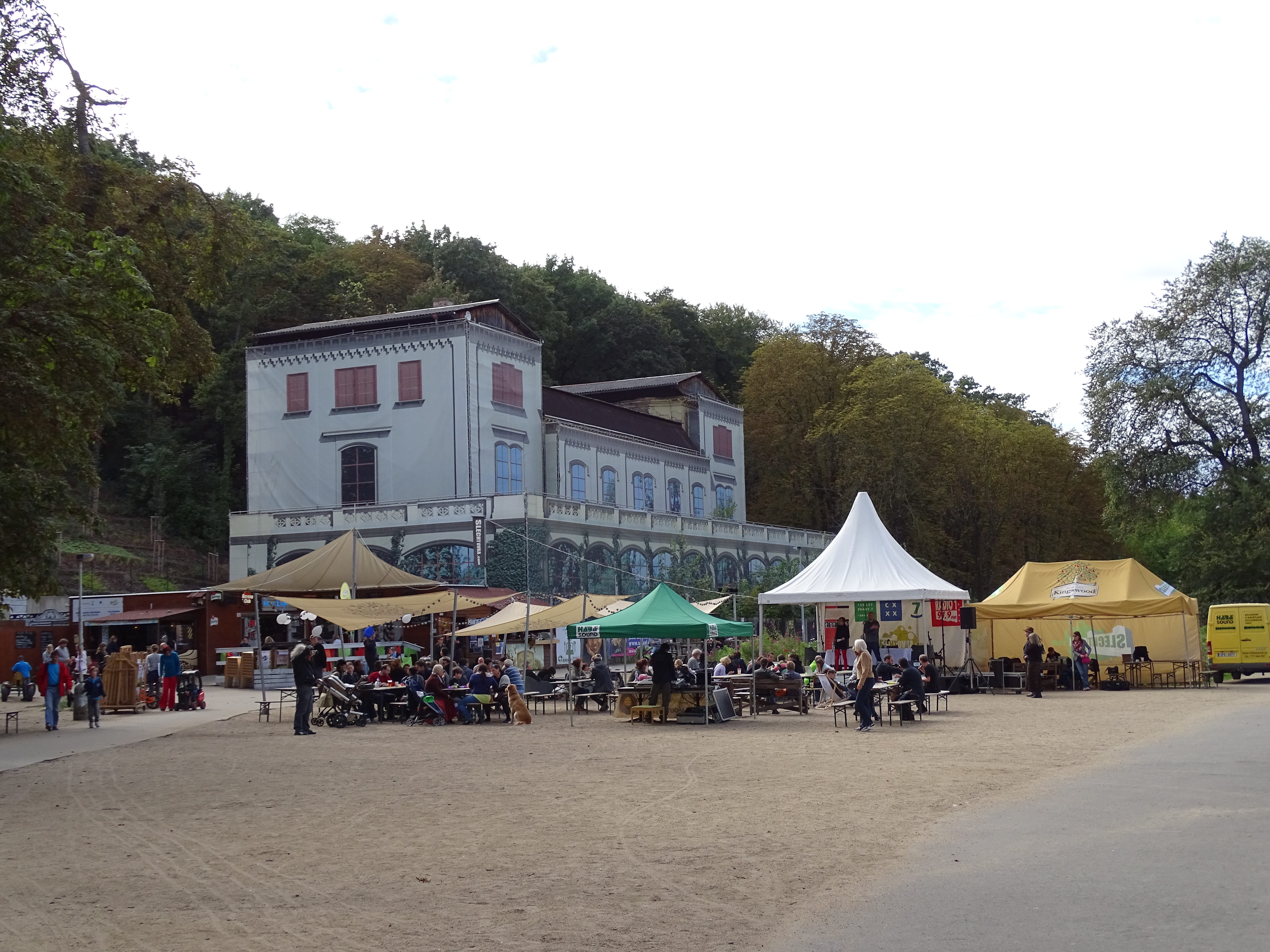 Prague-Bubeneč, Czech Republic. Stromovka Park, Šlechta's Restaurant, Královská obora 20.